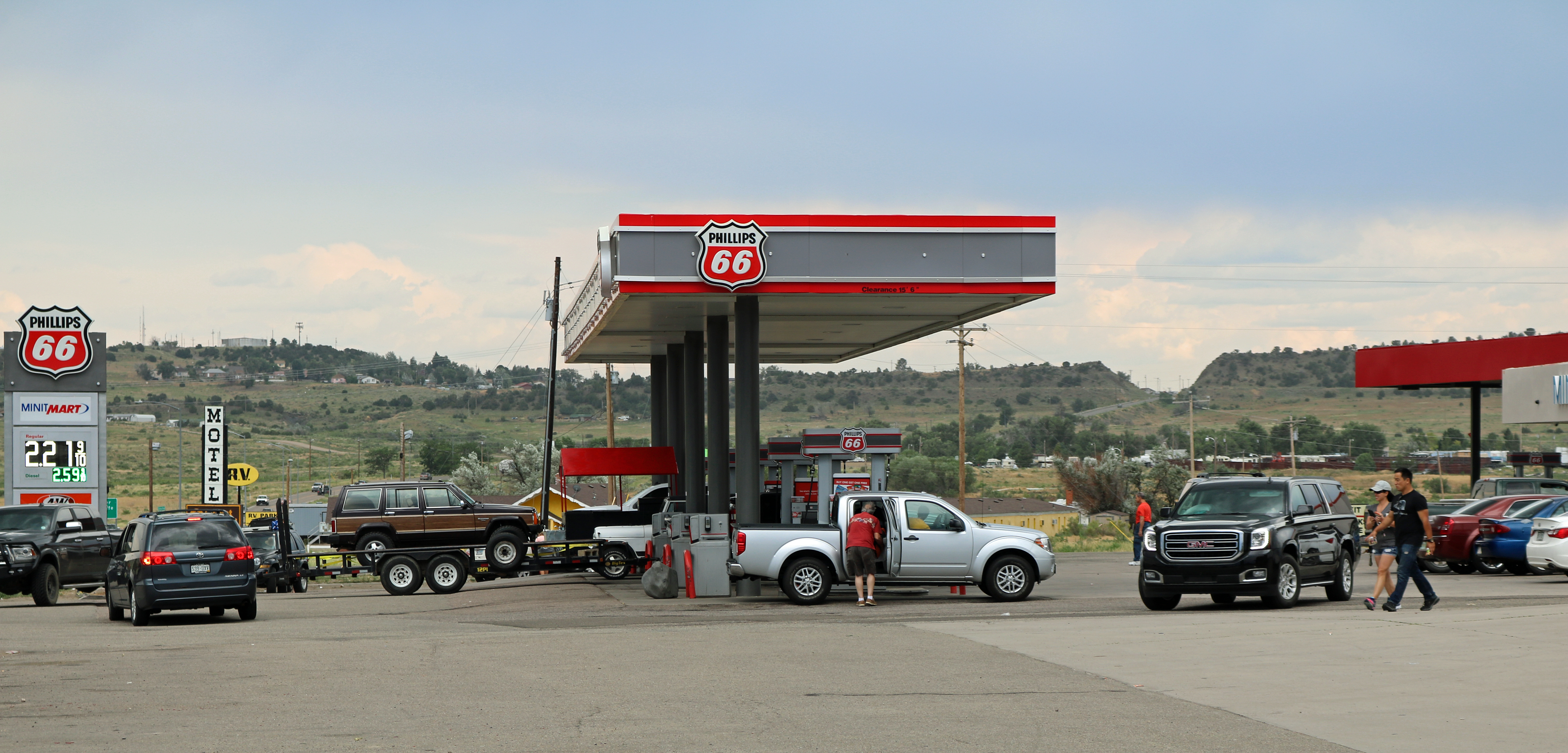 A view of part of Farista, Colorado. The community consists of a few dwellings but is dominated by several businesses that serve travelers on Interstate 25, which runs through the settlement. The roadside businesses include a hotel, a motel, a gas (and diesel) station, an RV park, and some fast-food restaurants. The view is to the south, and Walsenburg lies on the other side of the ridge.